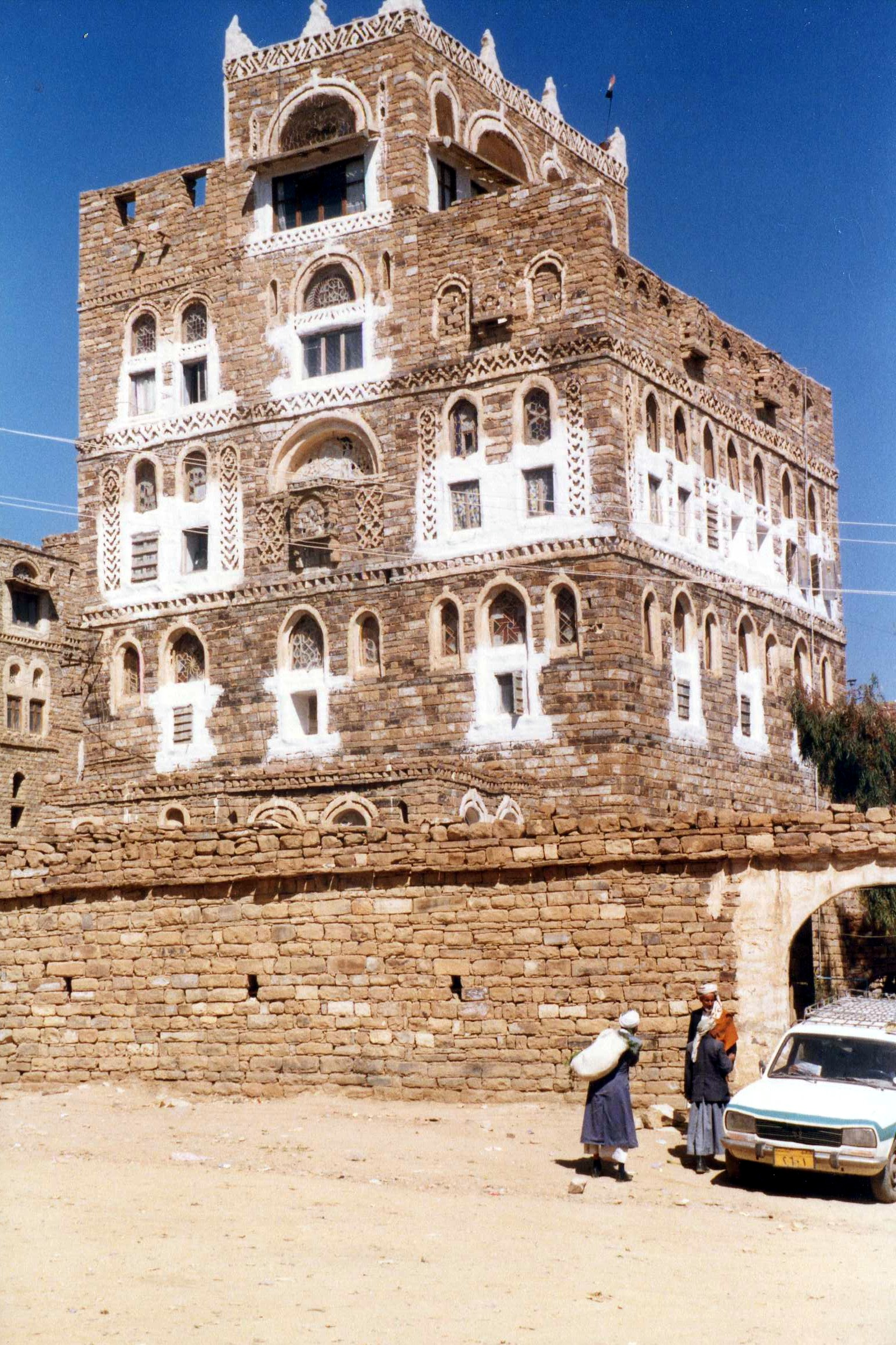 Yemenite house in Thula